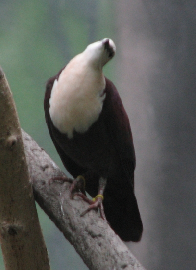 Male White Throated Ground Dove